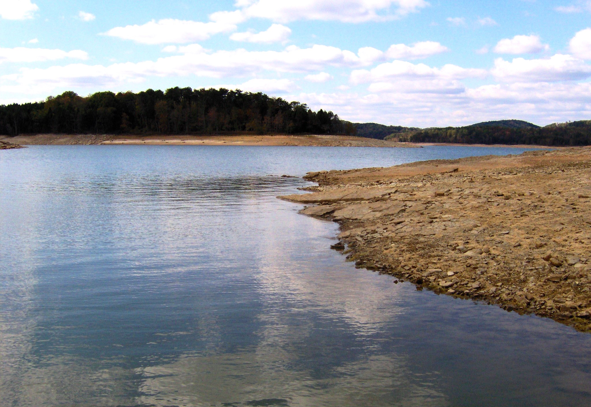 Norris Lake near the Sharp's Station site at Big Ridge State Park in Union County, Tennessee, in the southeastern United States.